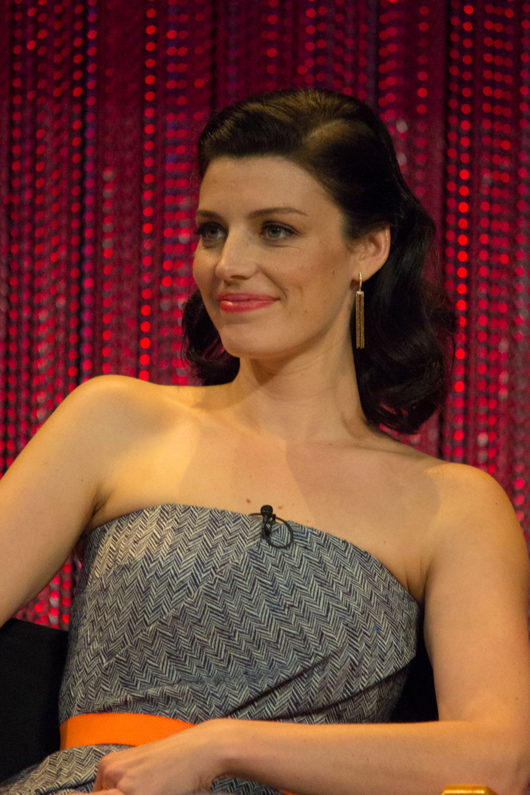 Actress Jessica Paré at The Paley Center For Media's PaleyFest 2014 Honoring "Mad Men"